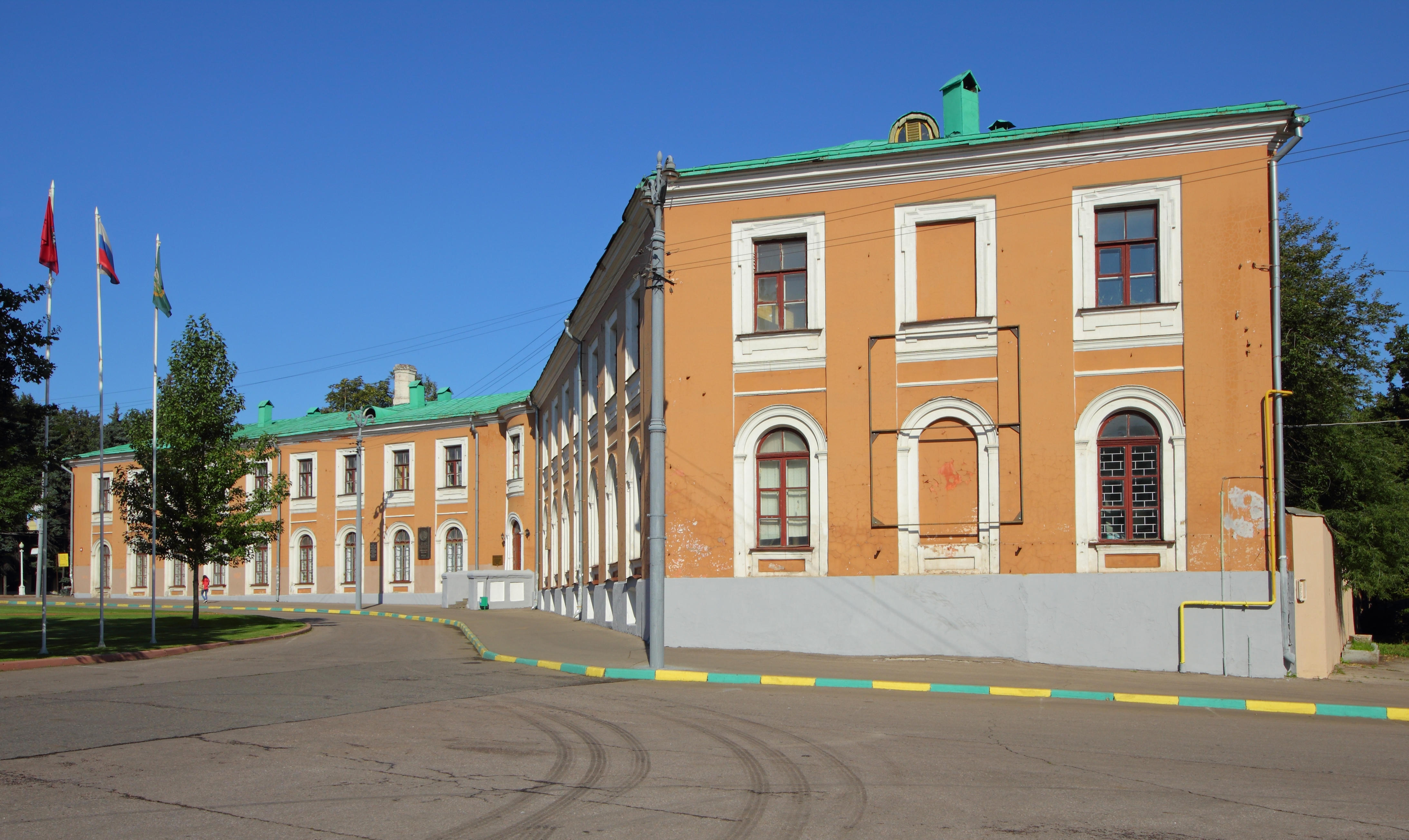 Moscow, Russia. Former Petrovsko-Razumovskoe Estate, today located at both sides of Timiryazevskaya Street, and used by the State Timiryazev Agricultural Academy.